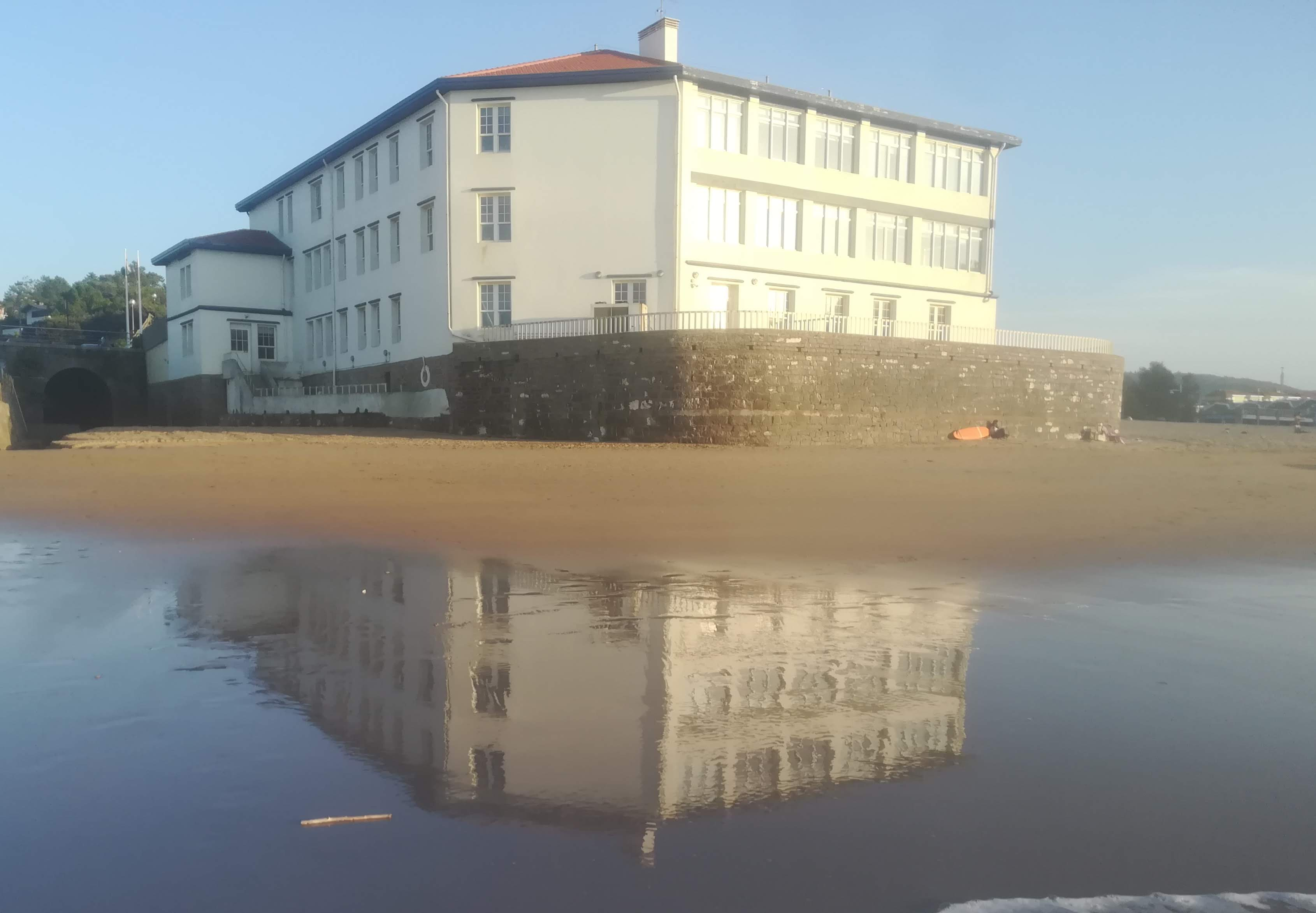 View of the "Plentzia Marine Station" (PiE-UPV/EHU) -back view